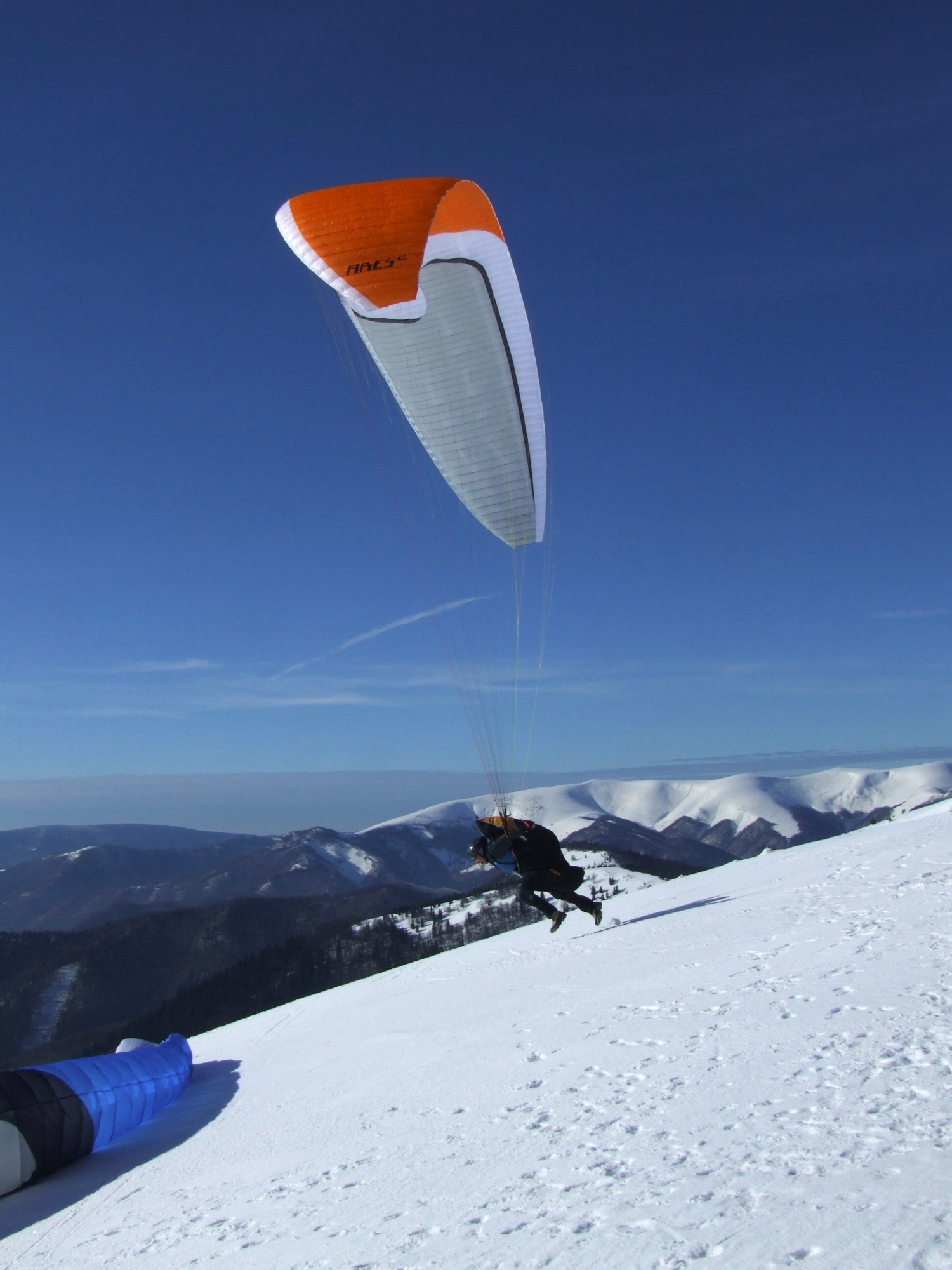 Start of the paraglider in Veľká Fatra, Slovakia Paraglider model: Sky Paragliders - Ares 2